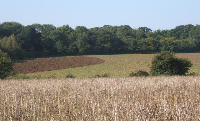 Fields backed by woodland Seen from the track skirting the south of Chadacre Park.